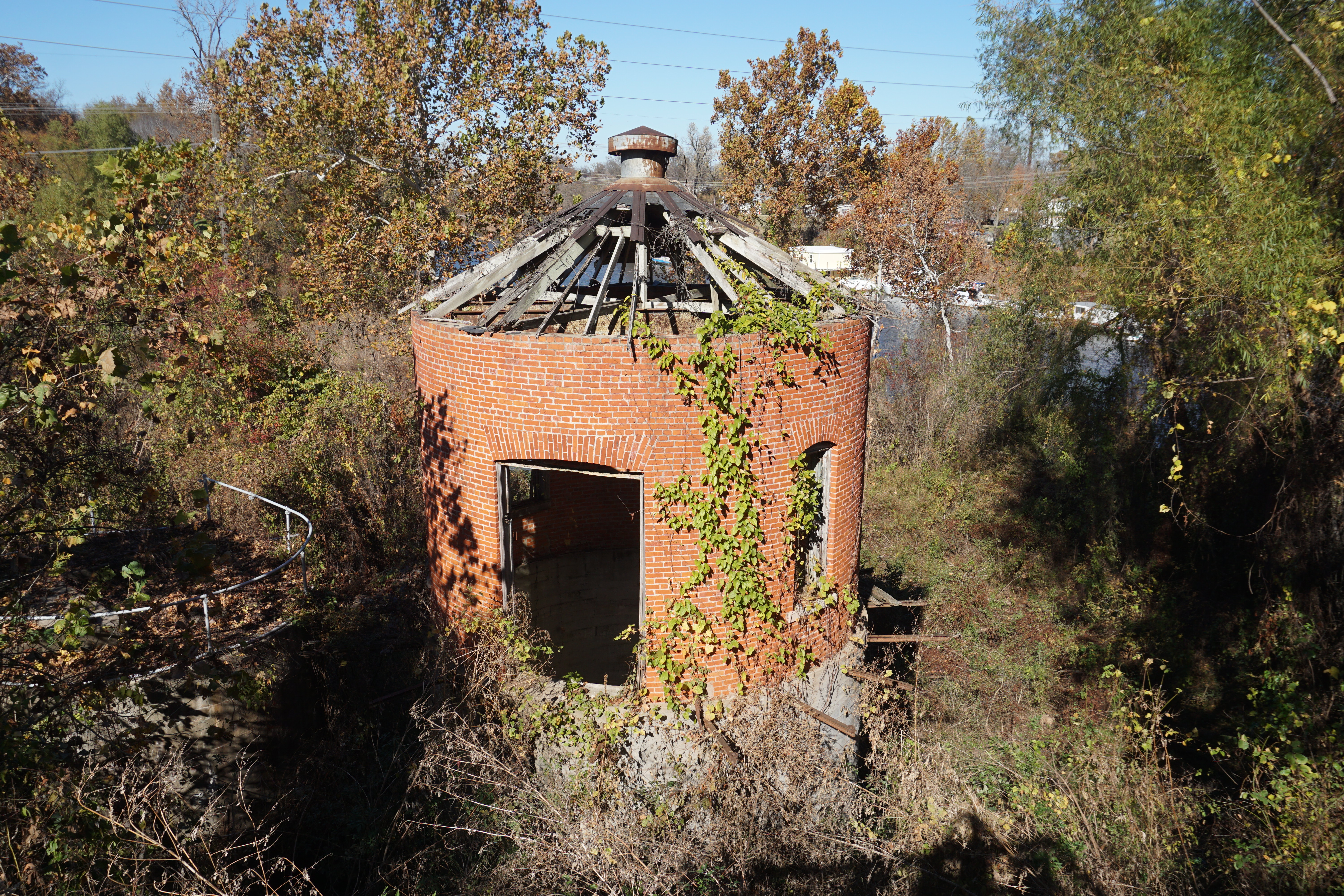 A raw water pump house and Cross Bayou outside the Shreveport Water Works Museum in Shreveport, Louisiana (United States).